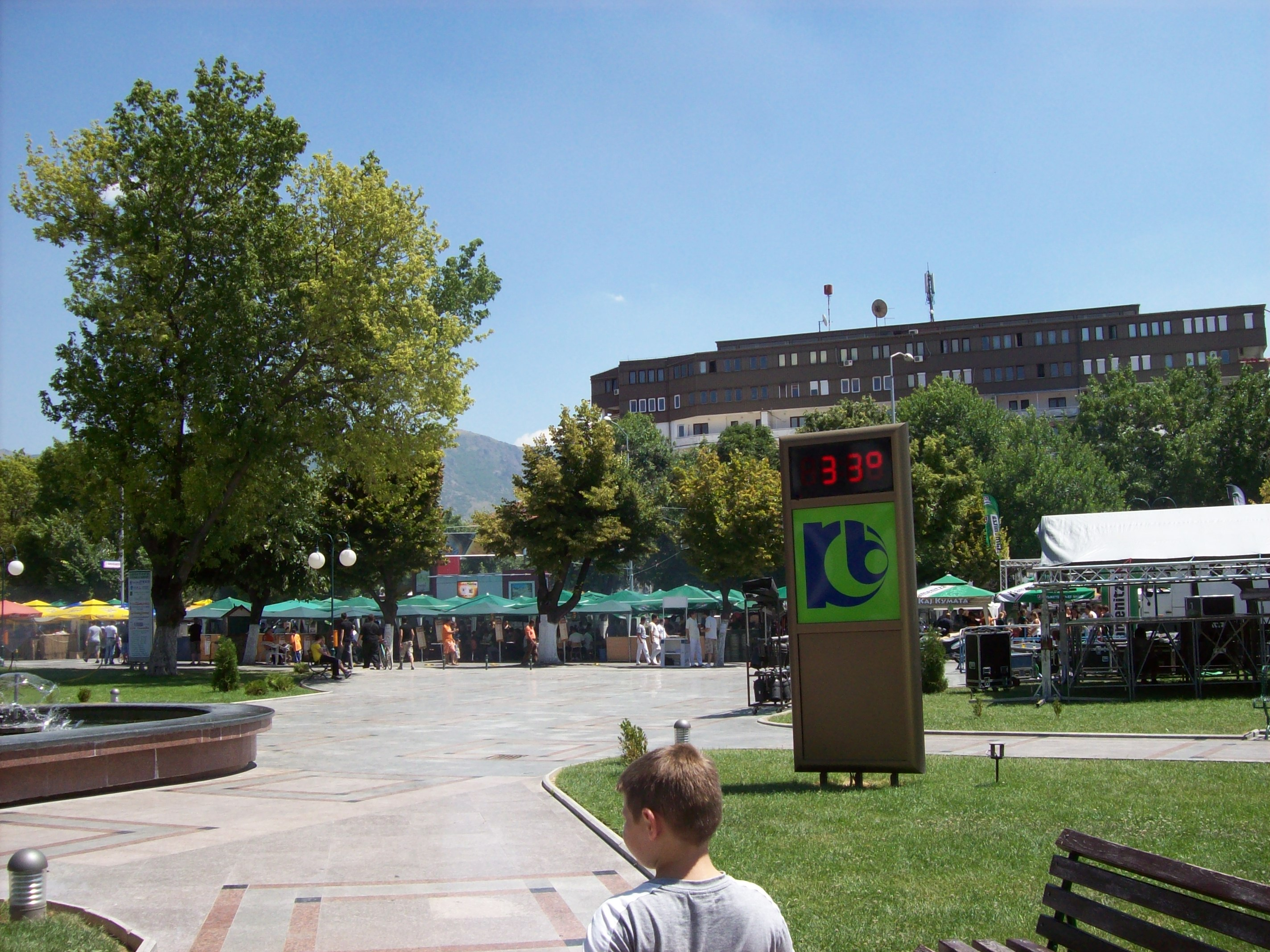 Pivo fest '09, Prilep, Macedonia